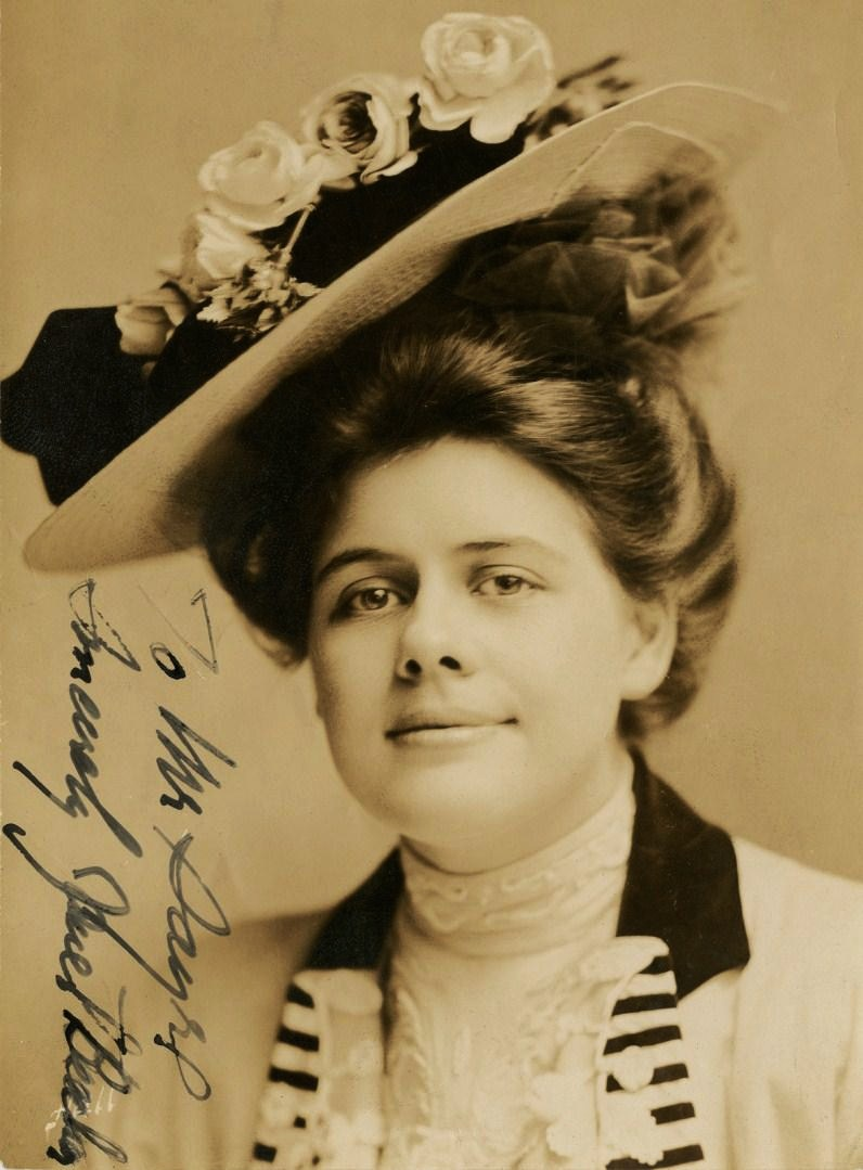 american actress Janet Beecher - publicity still (original image damaged, cropped and modified : see source)